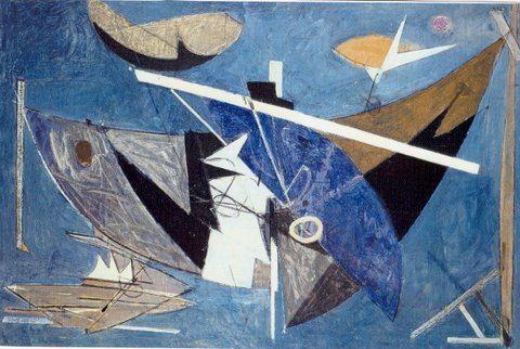 Edmond Boissonnet